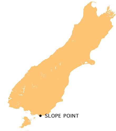 Location map of Slope Point, New Zealand